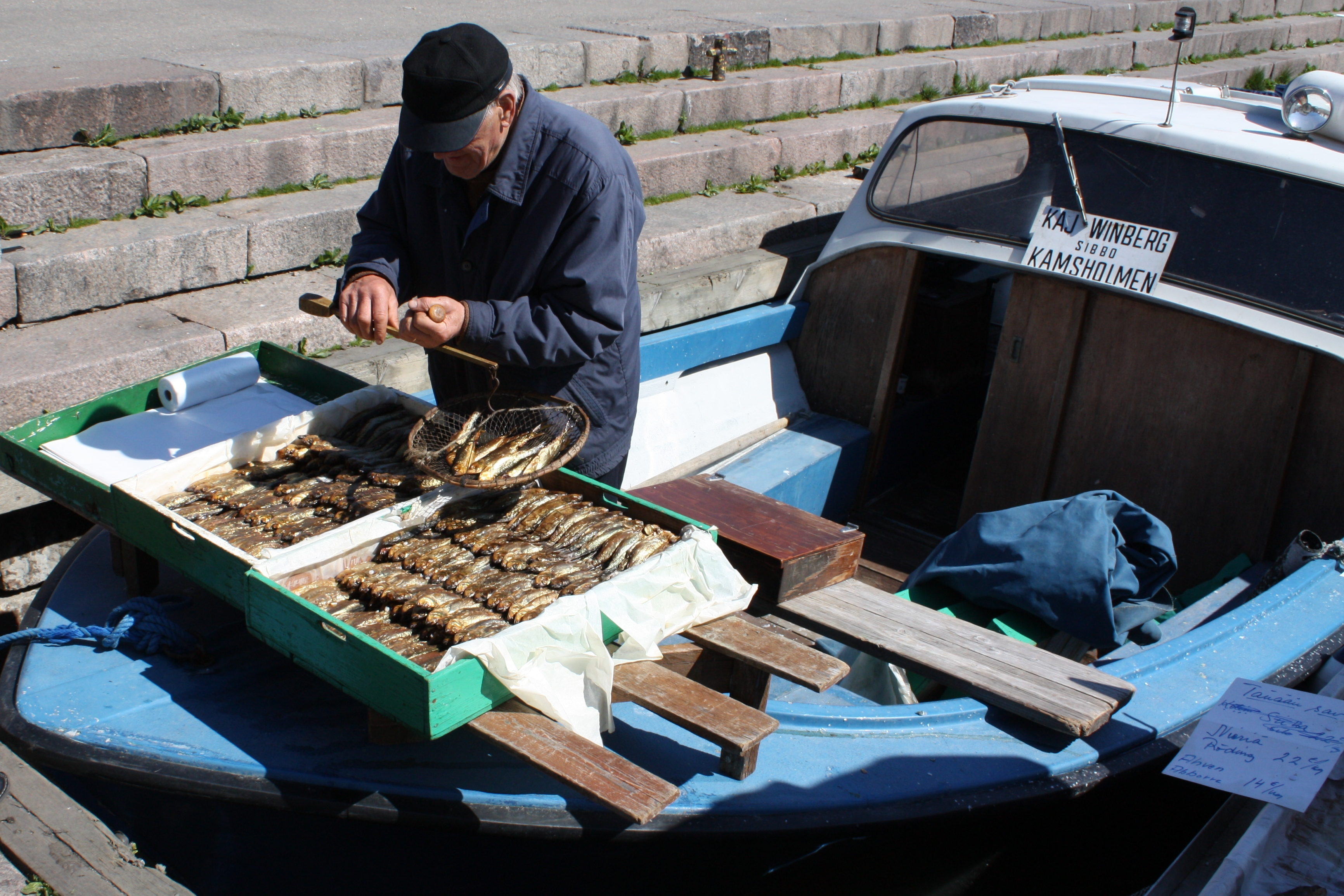 A fisherman is selling smoked herring at Market Square quay in Helsinki.